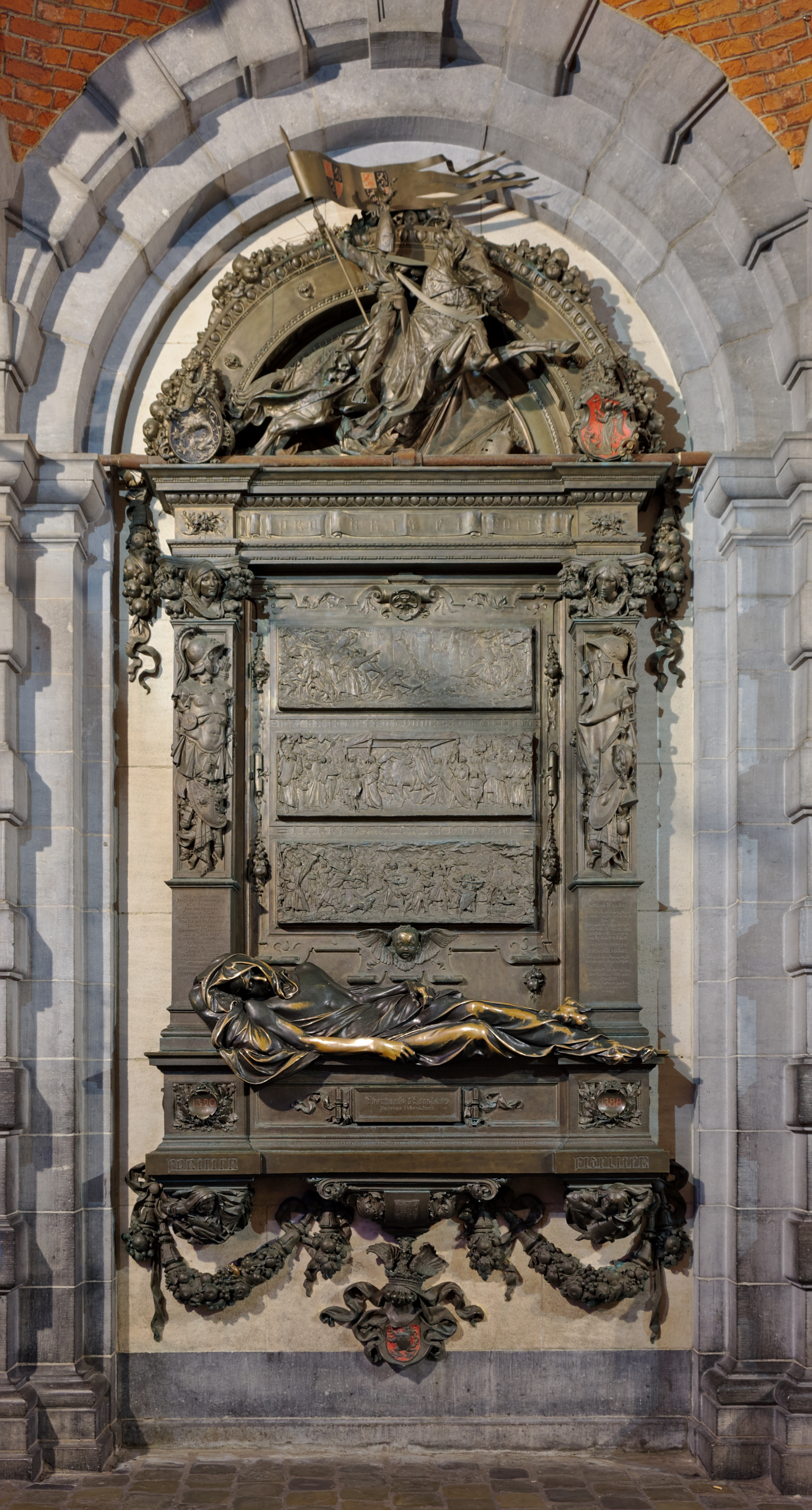 Everard t'Serclaes memorial in Brussels This photo of immovable heritage has been taken in the Brussels Capital Region This place is a UNESCO World Heritage Site, listed as La Grand-Place, Brussels.